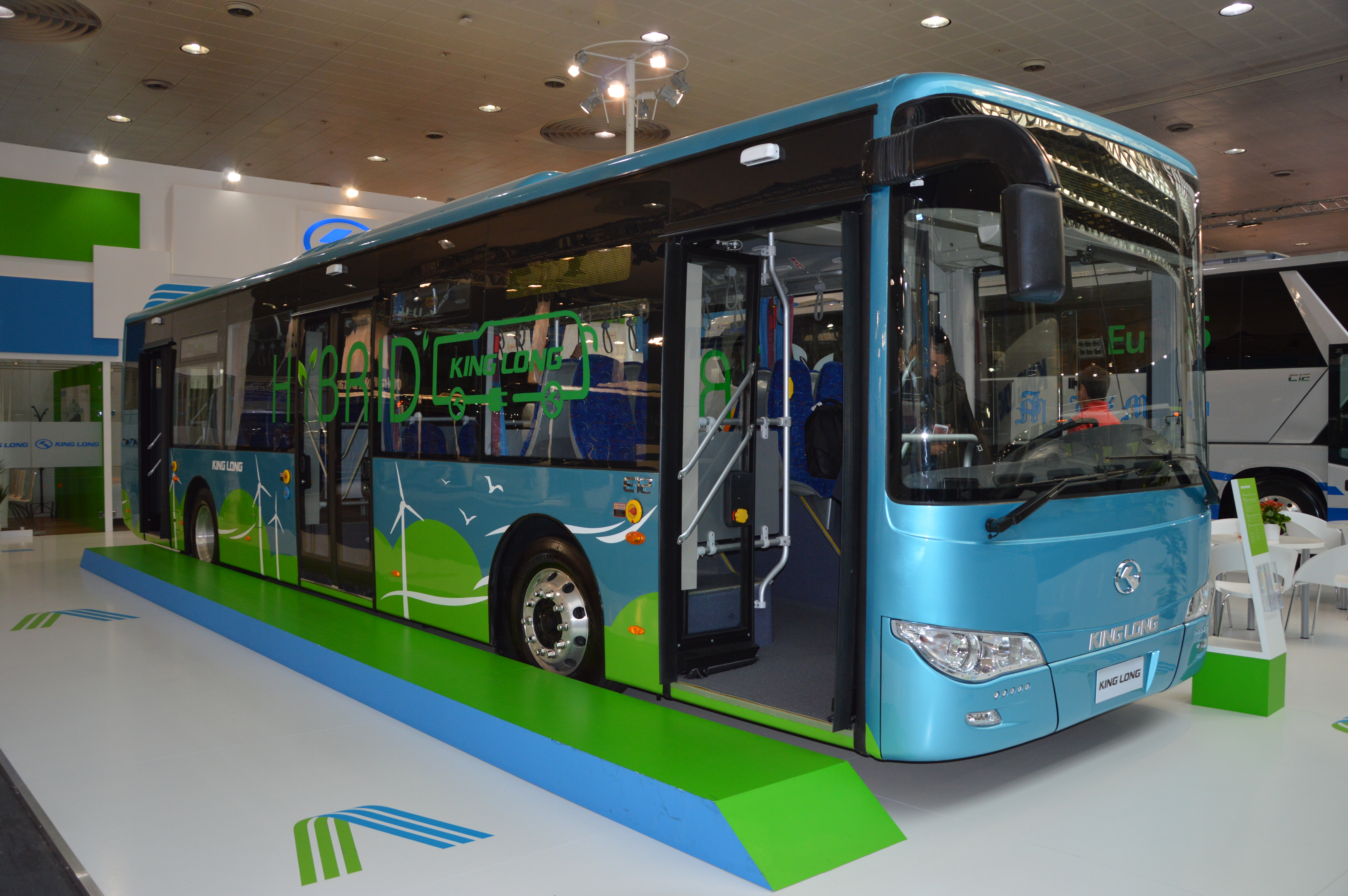 King Long hybrid city bus E 12. Photo taken at exhibition IAA 2014 in Hanover, Germany